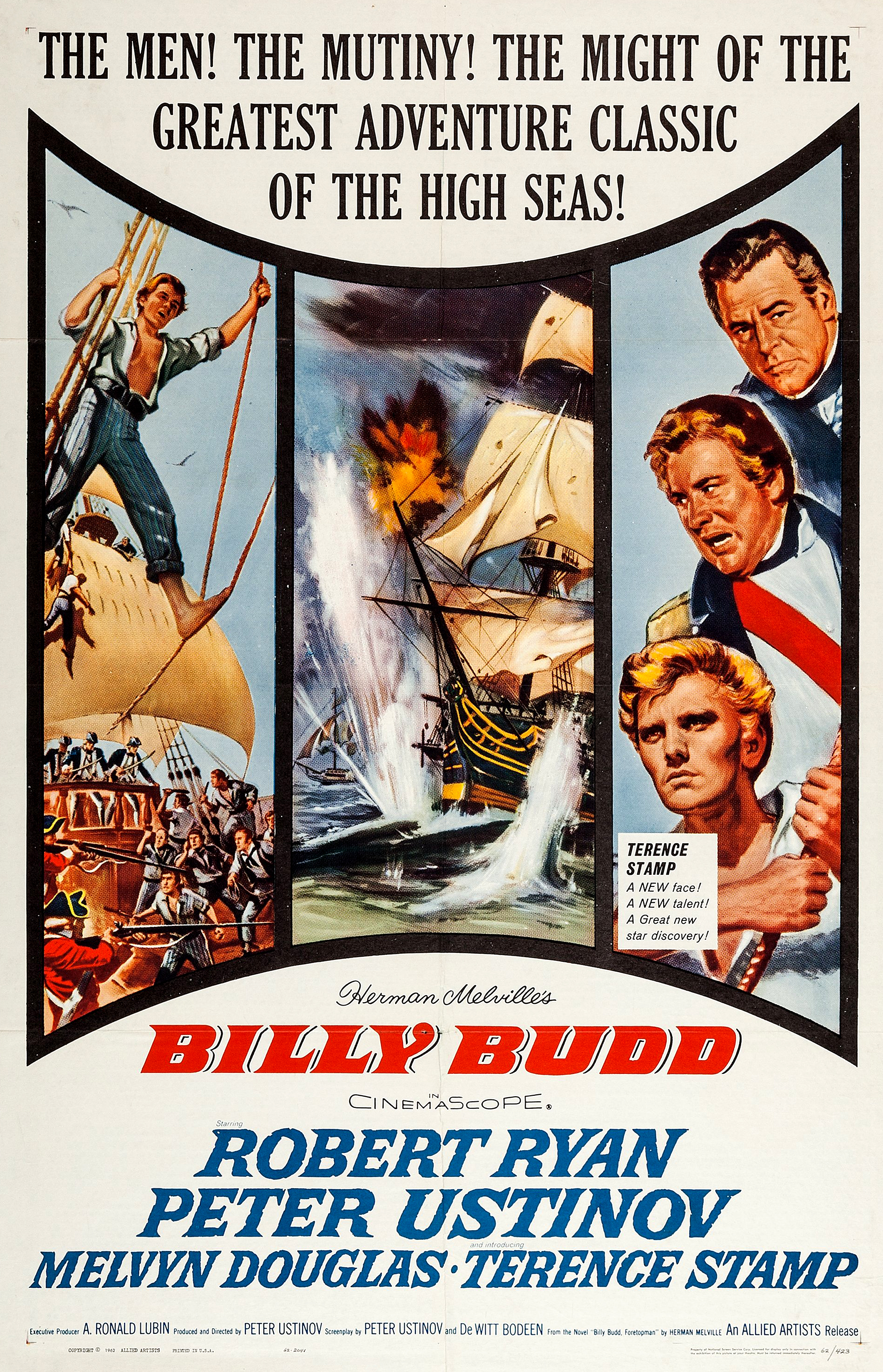 Theatrical poster for the film Billy Budd (1962)